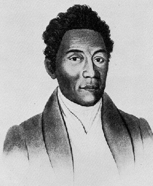 David Malo was a leading Native Hawaiian historian of the Kingdom of Hawaii.